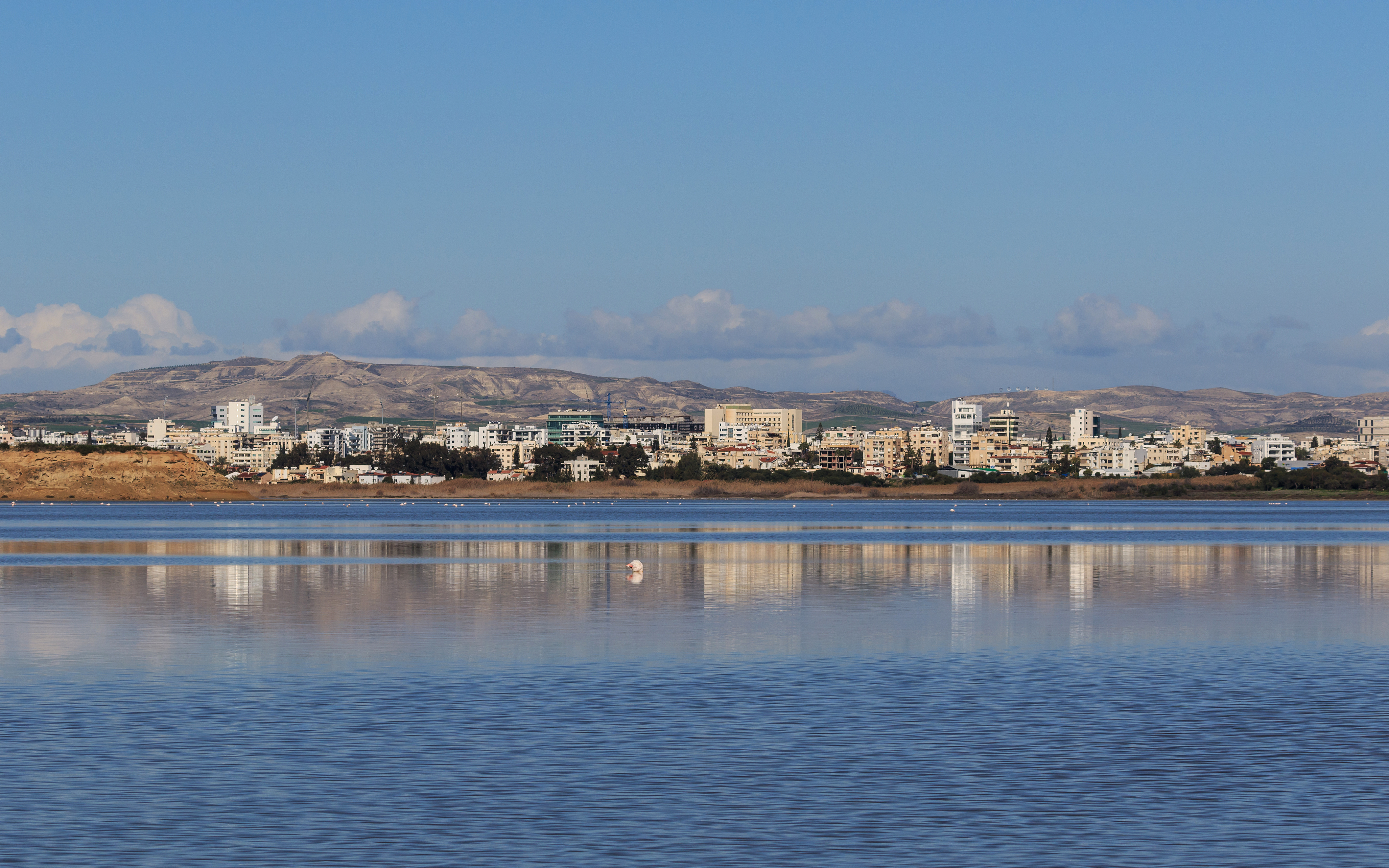 Salt Lake in Larnaca, Cyprus